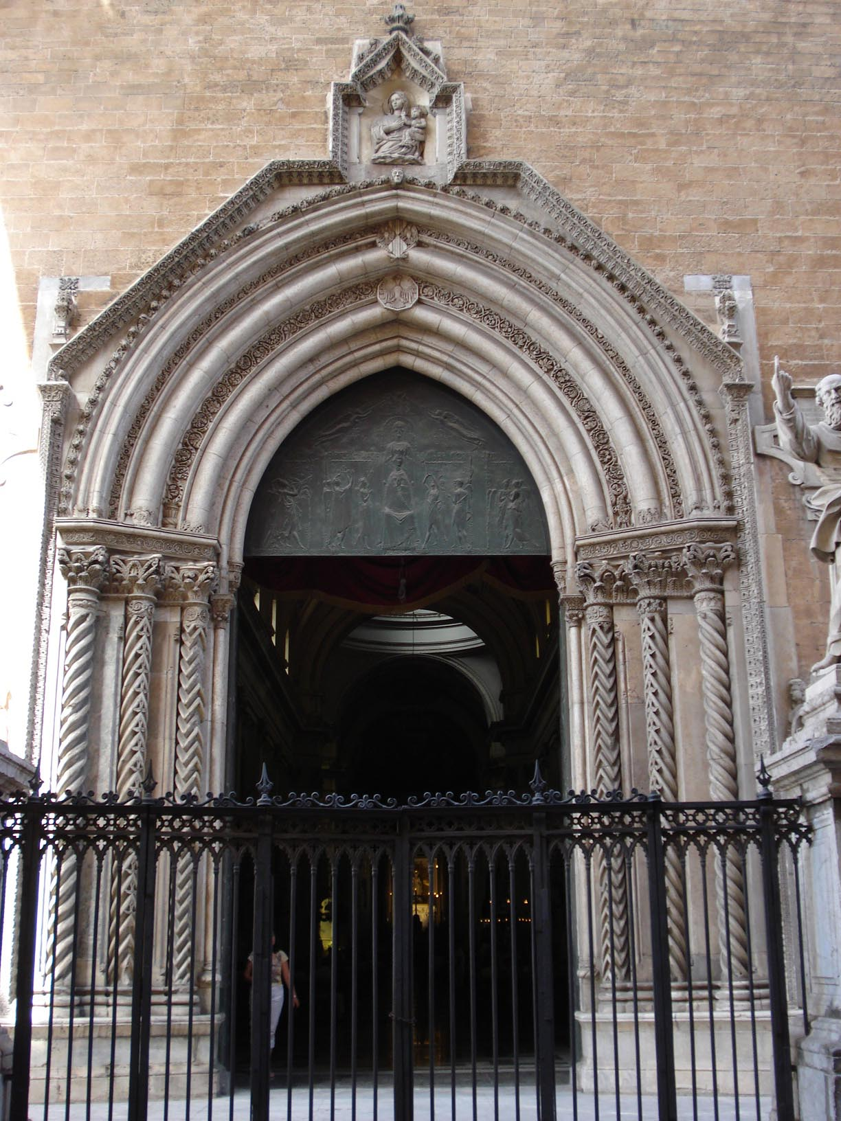 Western portal of Palermo Cathedral